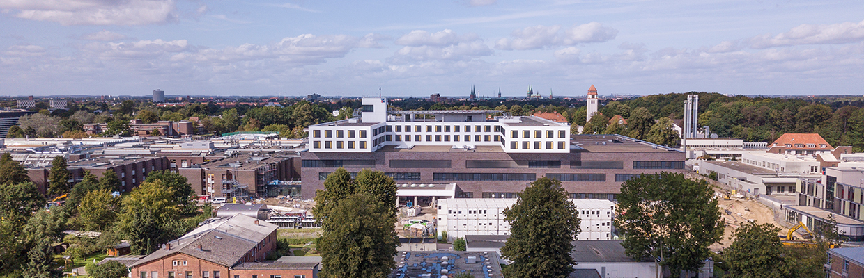 University Medical Center Schleswig Holstein bird view in 2019